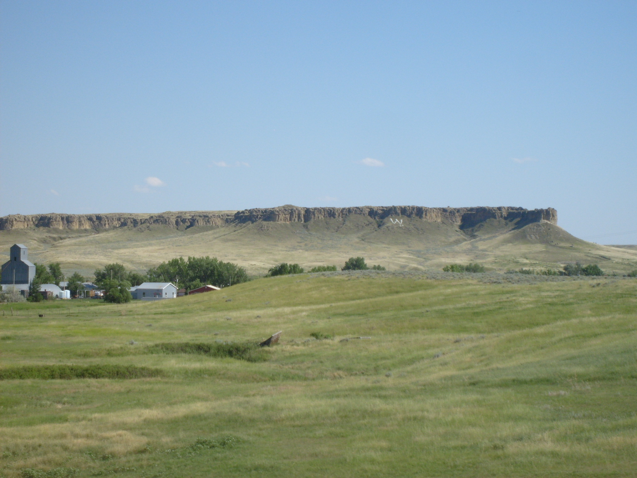 Winnett MT Rims South of Town